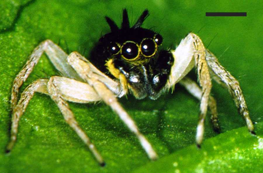 Male Maevia inclemens jumping spider from Rodman Dam, Putnam County, Florida, USA